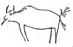 A creature drawn by some unknown Native American probably before the early 1700s, scratched into the sandstone inside Samuel's Cave near Barre Mills, Wisconsin. This image is an etching based on a tracing of the image.